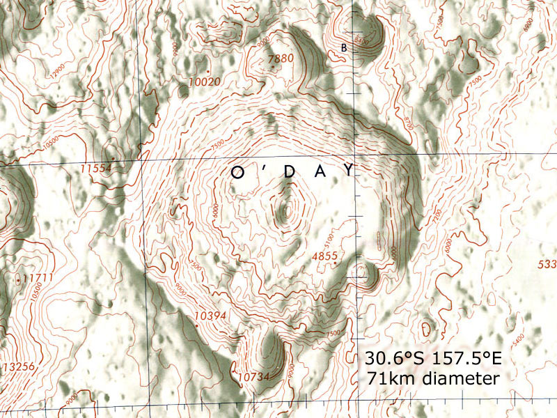 O'Day Crater on the far side of the moon, derived from Lunar Orbiter and Apollo 17 spacecraft photographs.